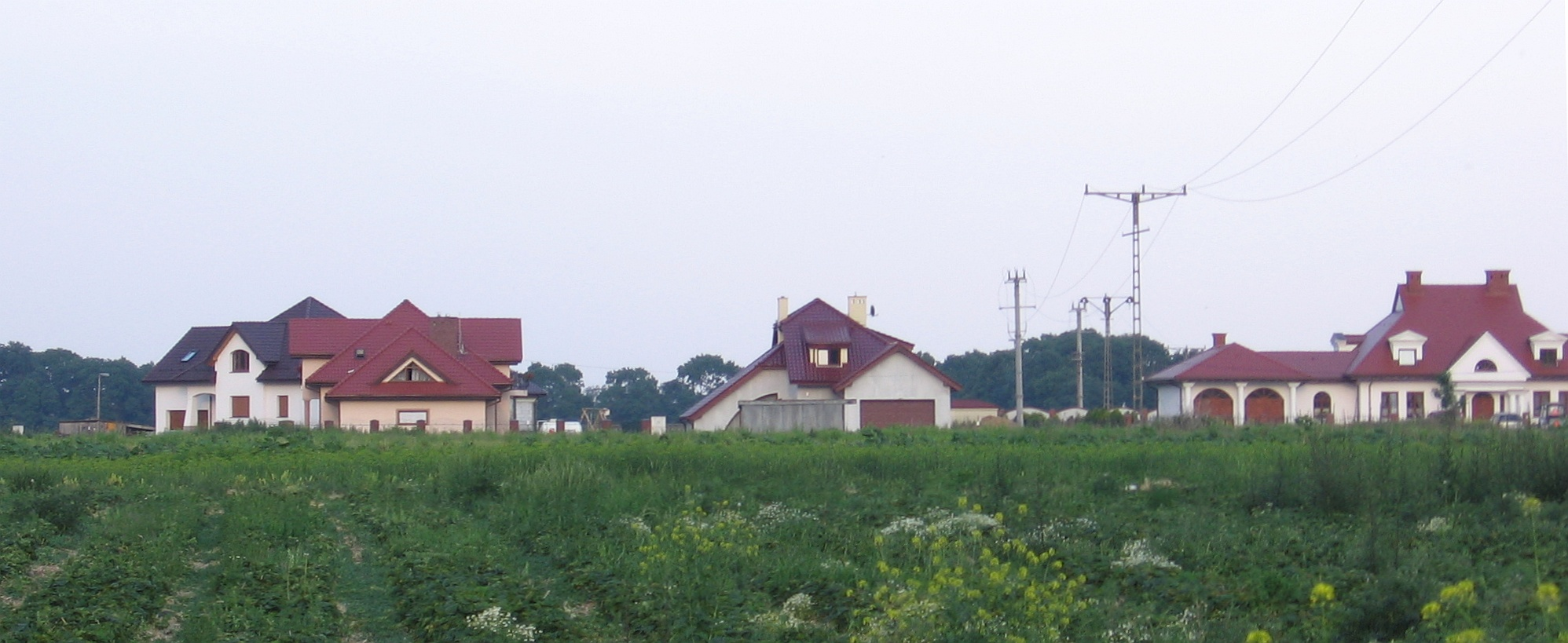 village Radomierzyce near Wrocław, Poland: typical houses